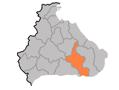 Changdo county map